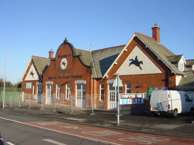 Aintree Racecourse Entrance. The original entrance to Aintree Racecourse. The first official races at Aintree were organised by the owner of Liverpool's Waterloo Hotel, Mr William Lynn who leased the land from Lord Sefton, laid out a course, built a grandstand and staged the first Flat fixture on July 7, 1829. On Tuesday February 26, 1839, Lottery became the first winner of The Grand National. In those days the field had to jump a stone wall (now the water jump), cross a stretch of ploughed land and finish over two hurdles. There was horse-racing in this area in the time of Elizabeth I, no doubt due to the flat nature of the land and the fact that Aintree means "one tree" an obvious tree-free area, this also led to Aintree becoming an important place for flying, a number of pioneer flights were made from here.